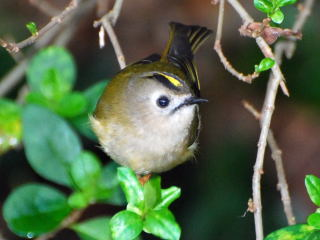 Goldcrest.